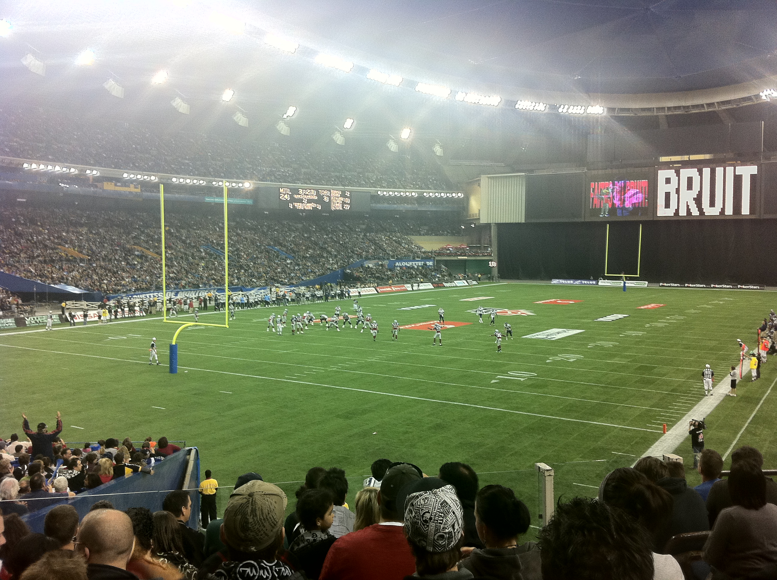 Olympic Stadium in Football Configuration as seen during the CFL Eastern Final 2010